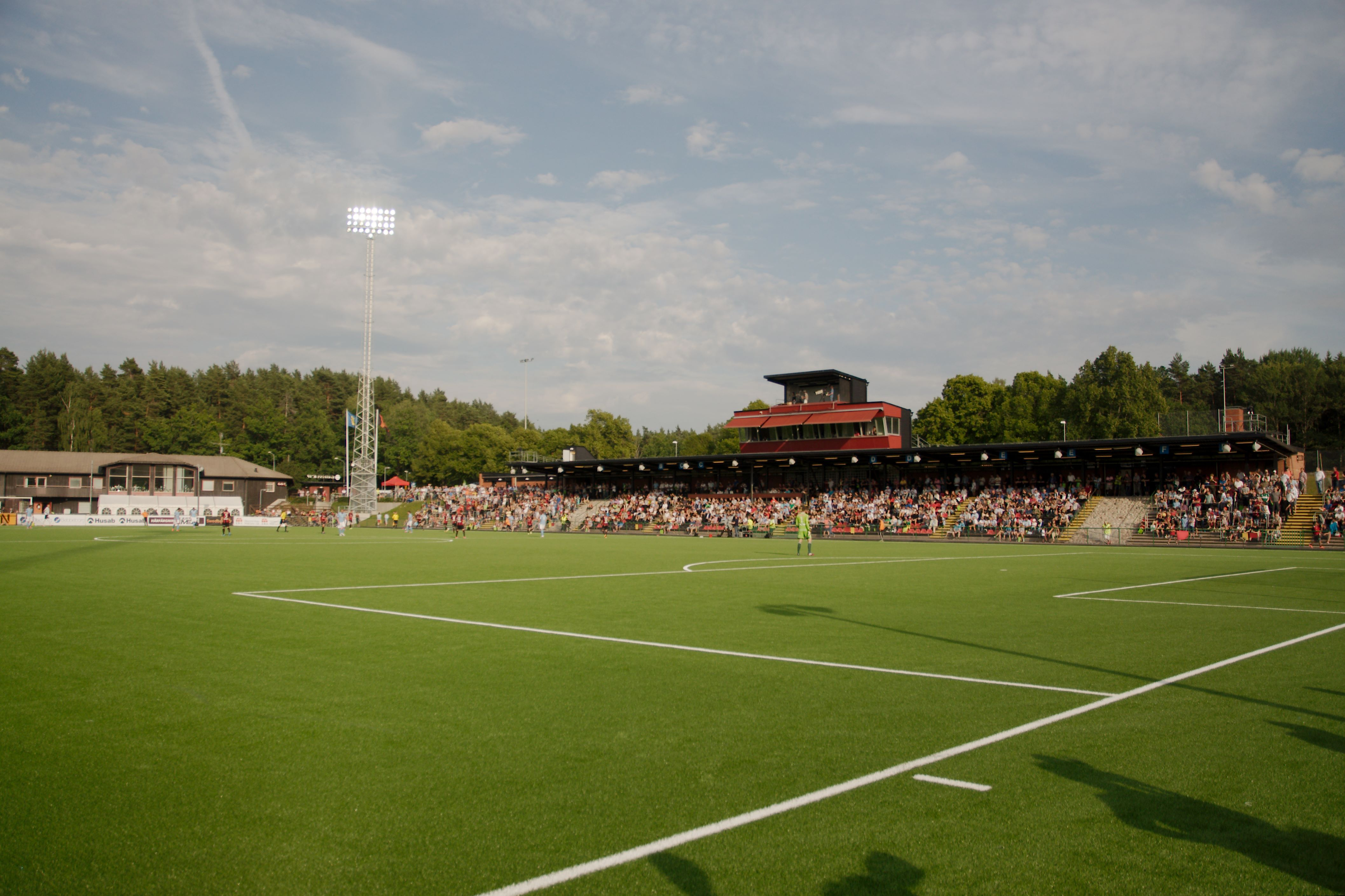 Allsvenskan IF Brommapojkarna-Malmö FF at Grimsta IP